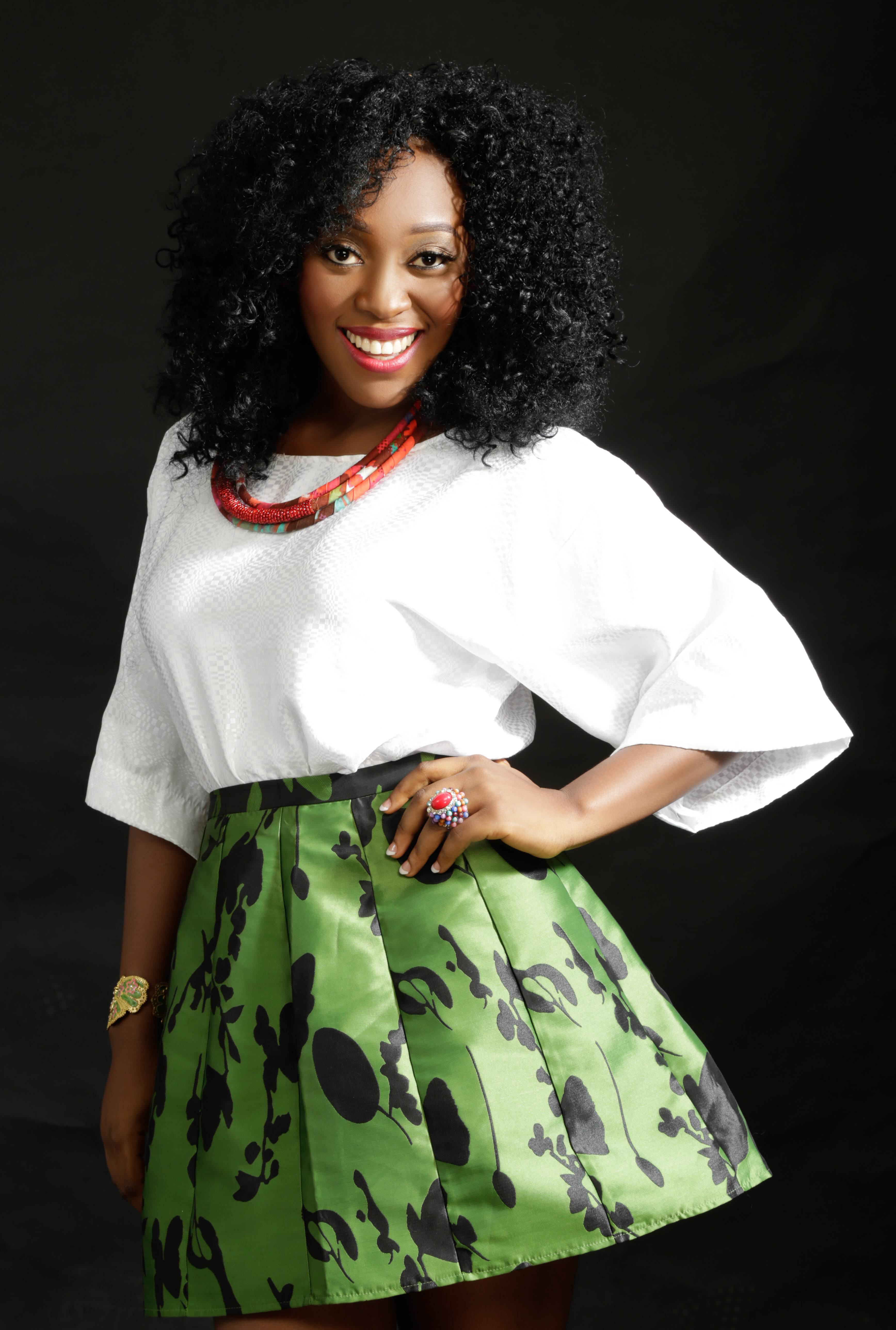 A Photo of the Nollywood actress Sylvia Oluchi Other information The email address used was gotten from her official website